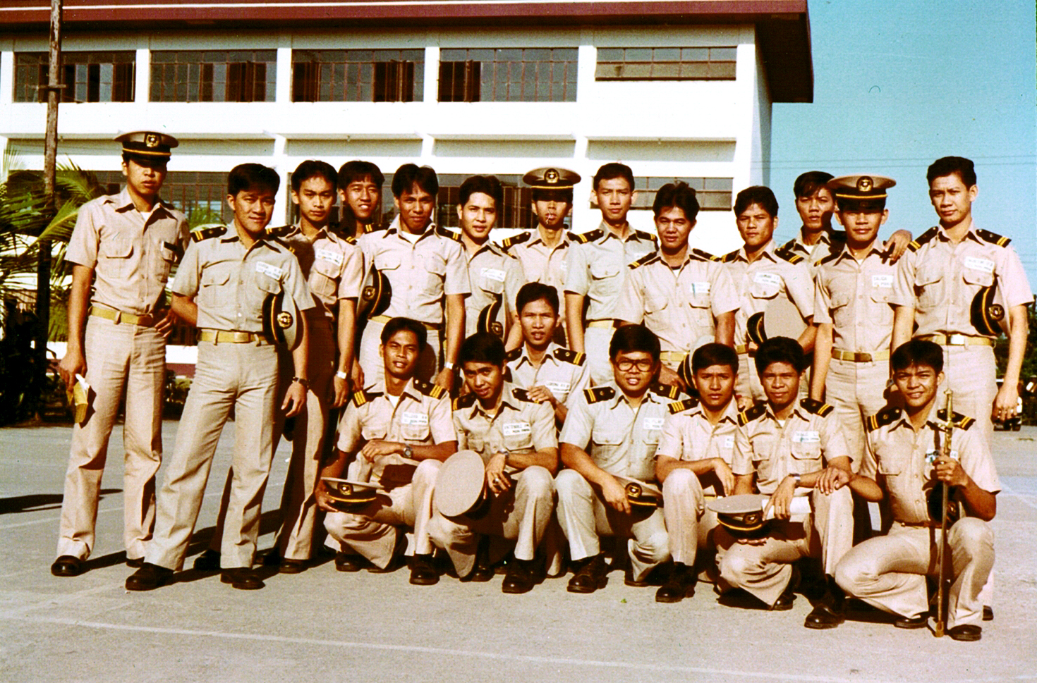 1Cl Midshipmen in front of D.A. Building.